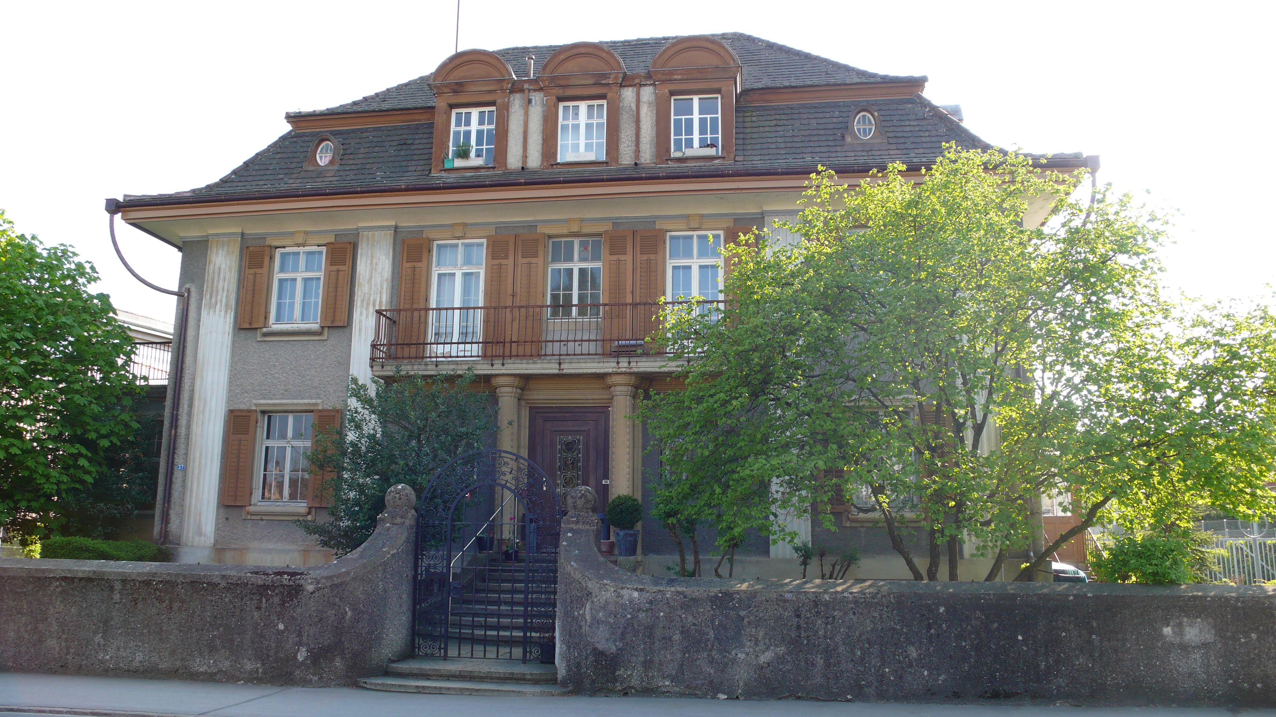 Villa Raichle on Schützenstrasse 33/ 35 in Kreuzlingen, Switzerland. Constructed 1915 by the architects Weideli and Kressibuch for the industrialist Louis Raichle.